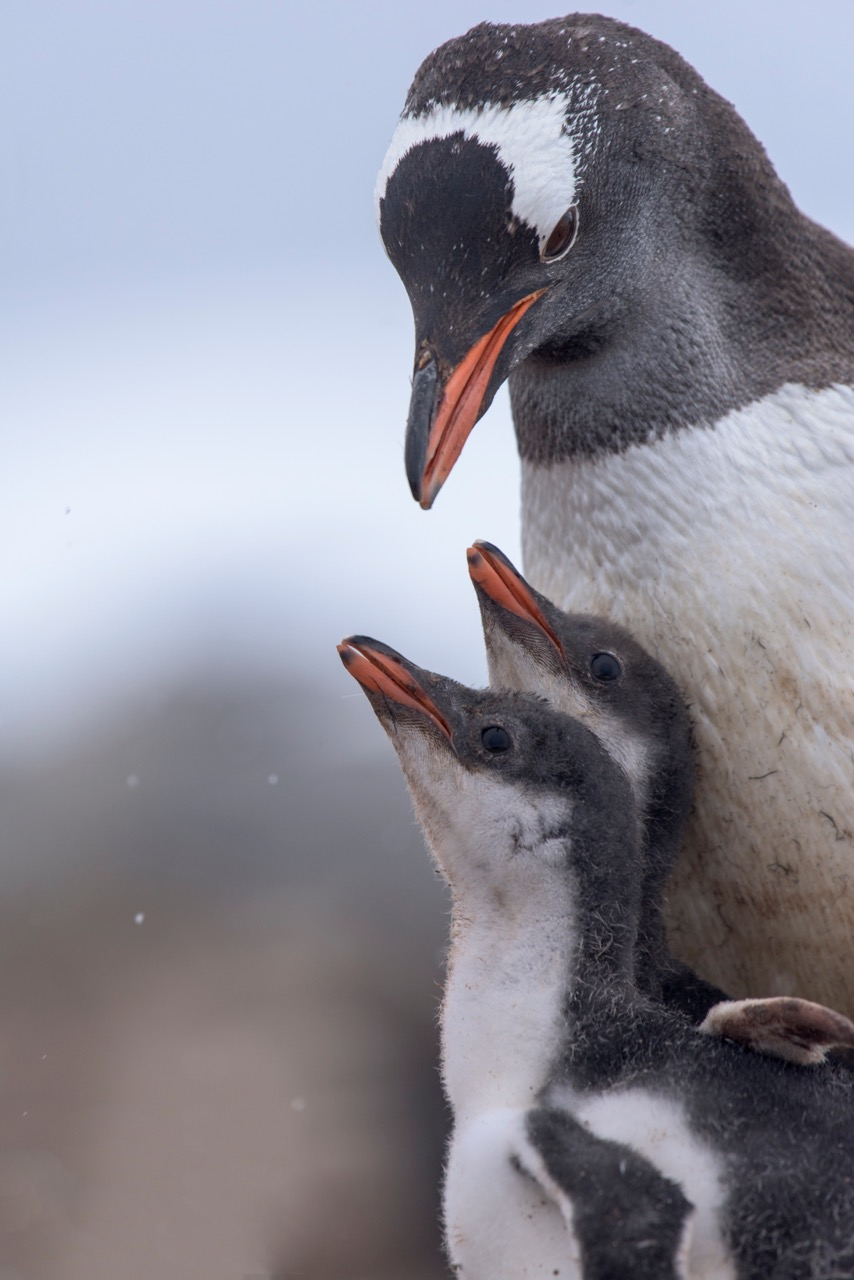 Journey to remote Antarctica aboard the Sea Adventurer